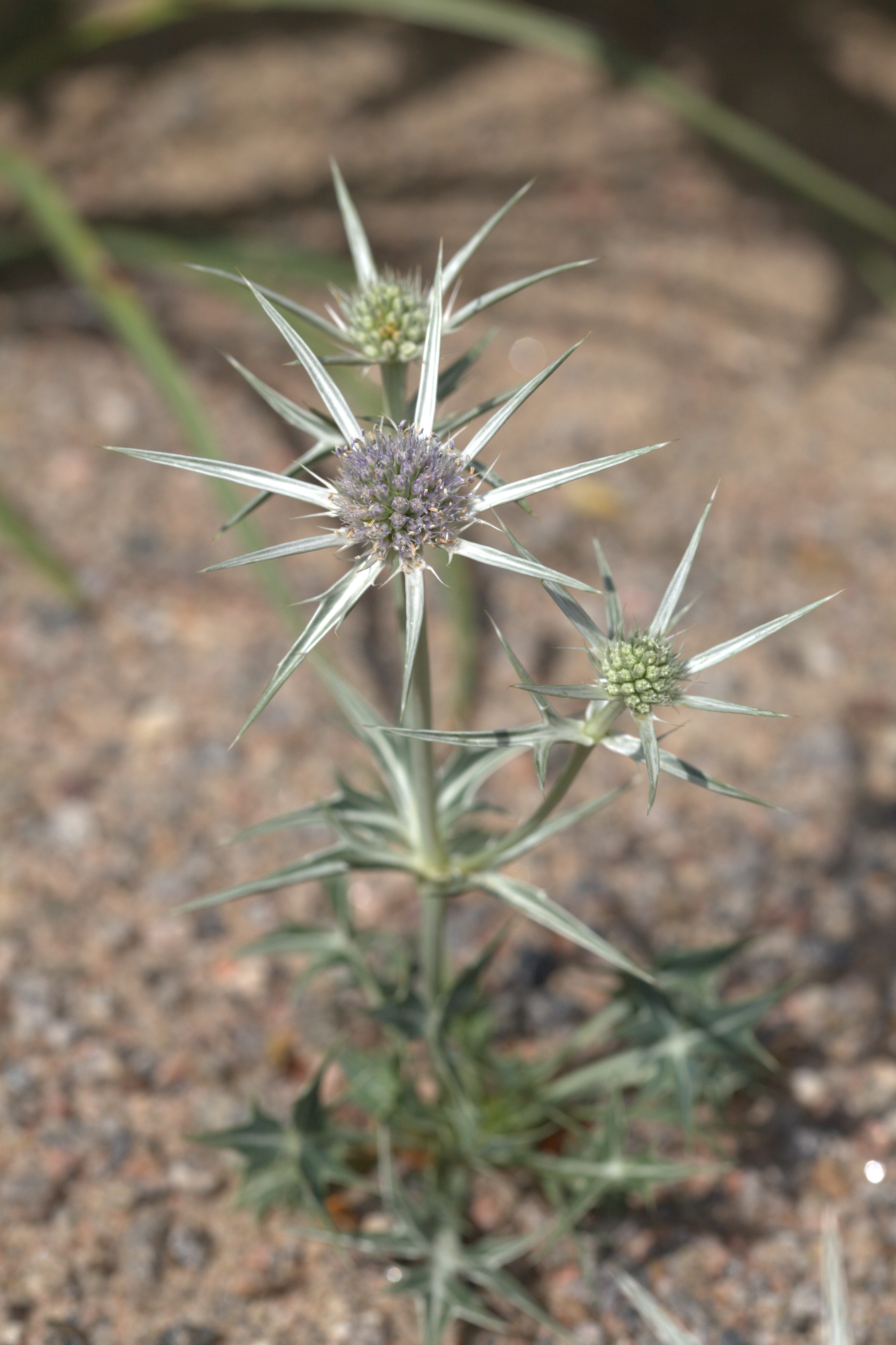 Photo taken at Gothenburg botanical garden. Specimen id: 2013-379 s G Seed collected in 2013 from a garden (Oberhof).